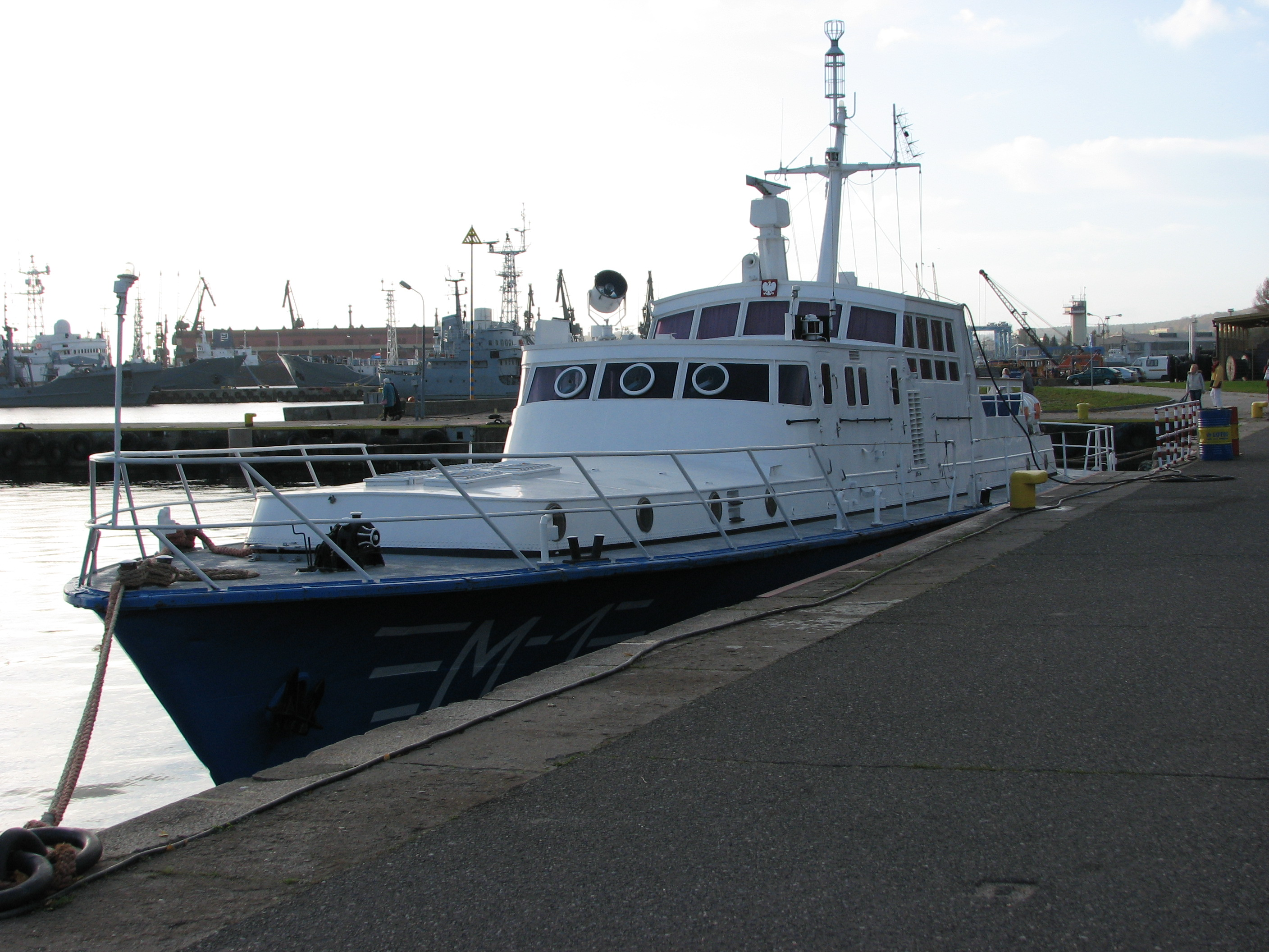 Polish Navy commander's motor boat M-1 in Gdynia